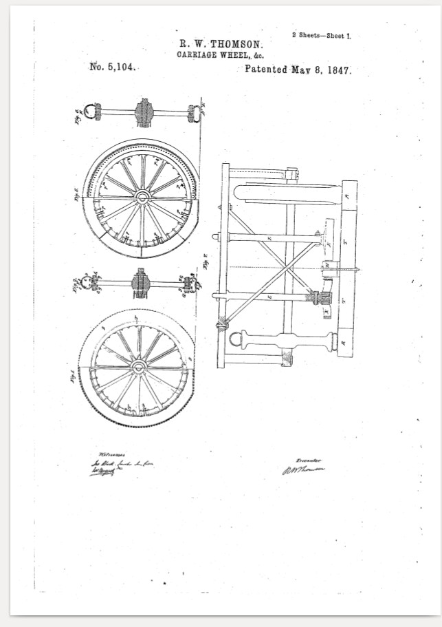 Robert William Thomson patented the first pneumatic carriage tire in Great Britain, Dec. 1845, Pt. 10990. This is the US patent for same, dated 08-05-1847, No 5104. Thomsons Aerial wheel predated Dunlop's invention by 43 years.